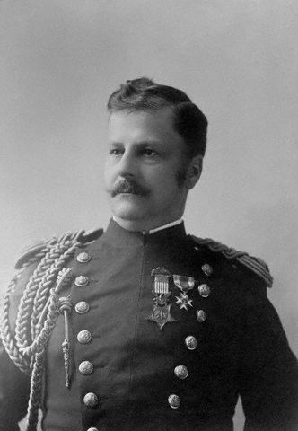 19th century photograph of Arthur MacArthur, Jr..